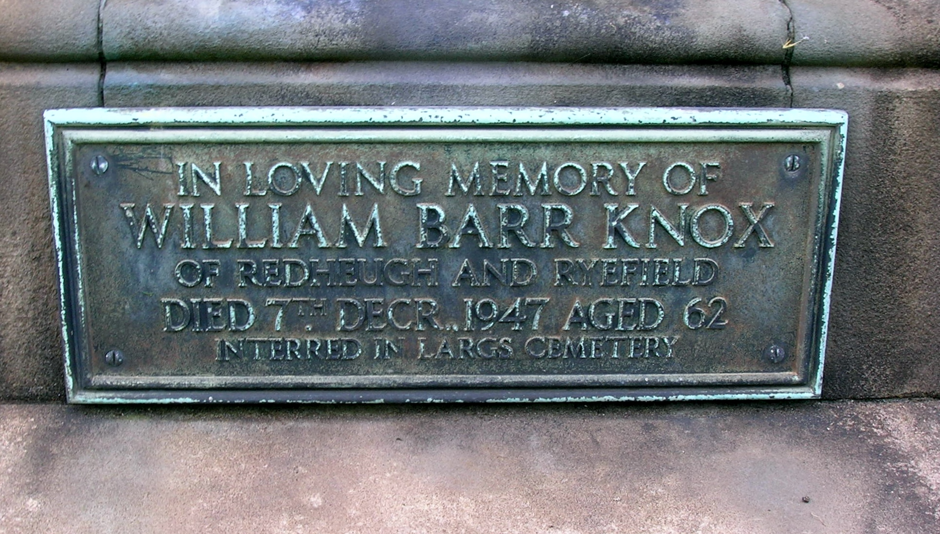 Memorial to William Barr Knox of Redheugh and Ryefield, Kilbirnie, North Ayrshire, Scotland